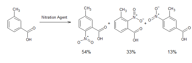 Electrophilic aromatic nitration of 3-methylbenzoic acid in which 5-methyl-2-nitrobenzoic acid is obtained as major product as accounted by Third Ortho Effect